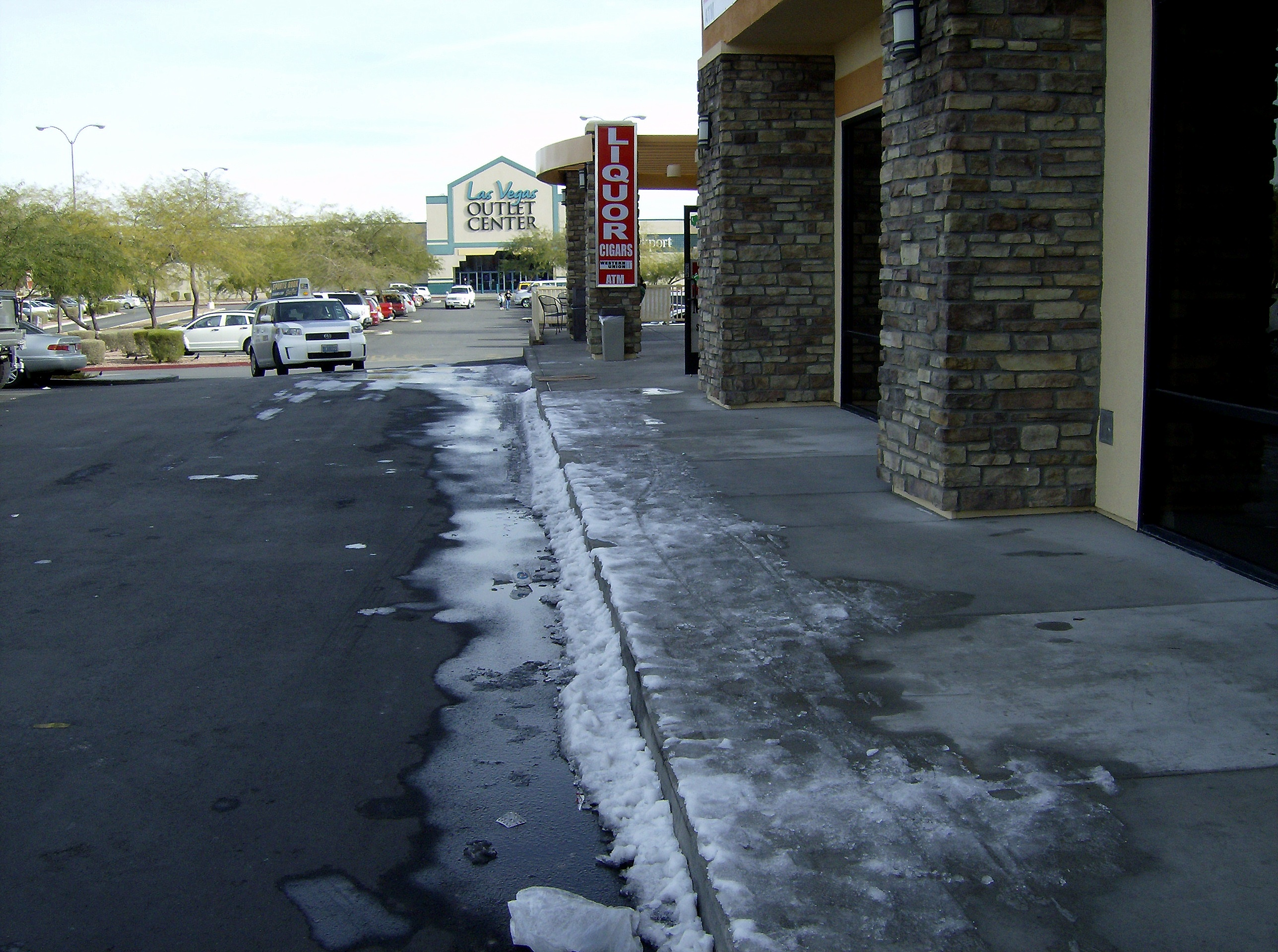 snow remains after very rare snowfall in Dec 2008